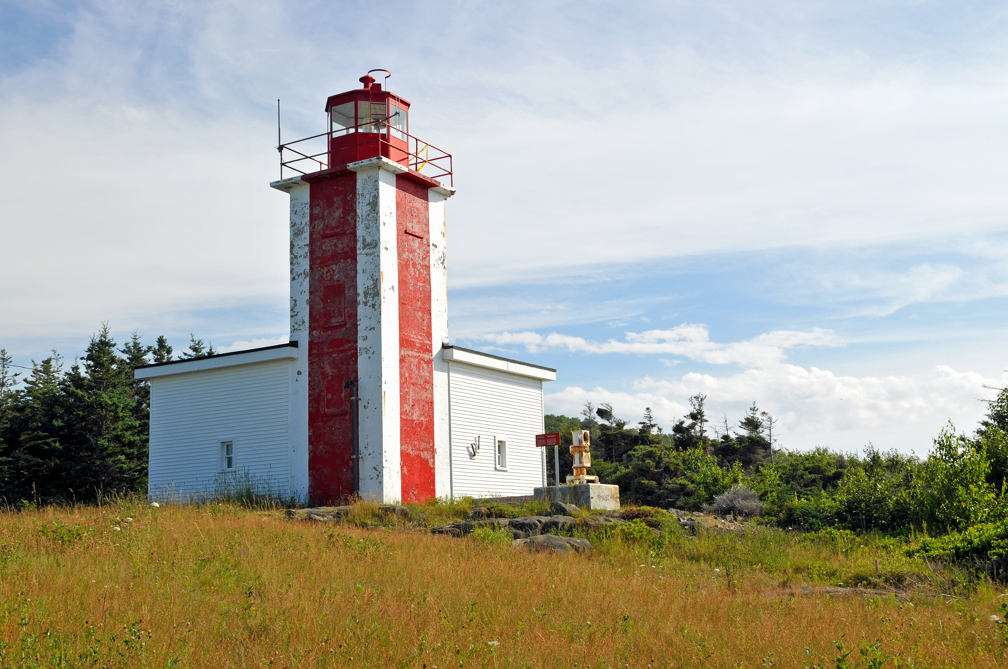 Prim Point Lightstation - The current lighthouse is the fourth in a succession of lights built on this location that date back to 1804. Location: West point of entrance to Annapolis Basin Standing: This light is still standing. Operating: This light is operational Automated: All operating lights in Nova Scotia are automated. Date Automated: Automated by 1993 Began: 1964 Year Lit: 1964 Structure Type: Square concrete tower, white, red stripes, attached to bldg Light Characteristic: Isophased White (1992) Tower Height: 025ft feet high. Light Height: 080ft feet above water level.